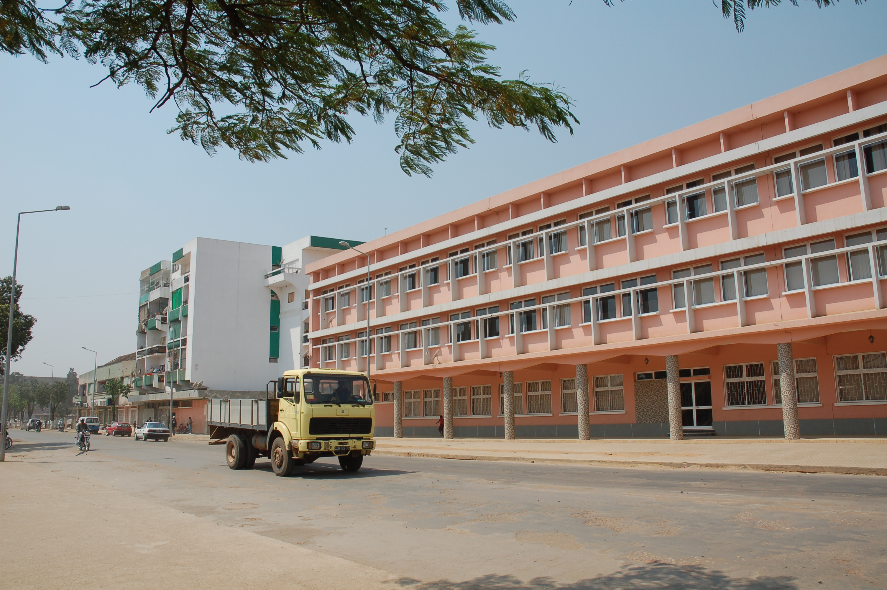 Post Office, central Huambo